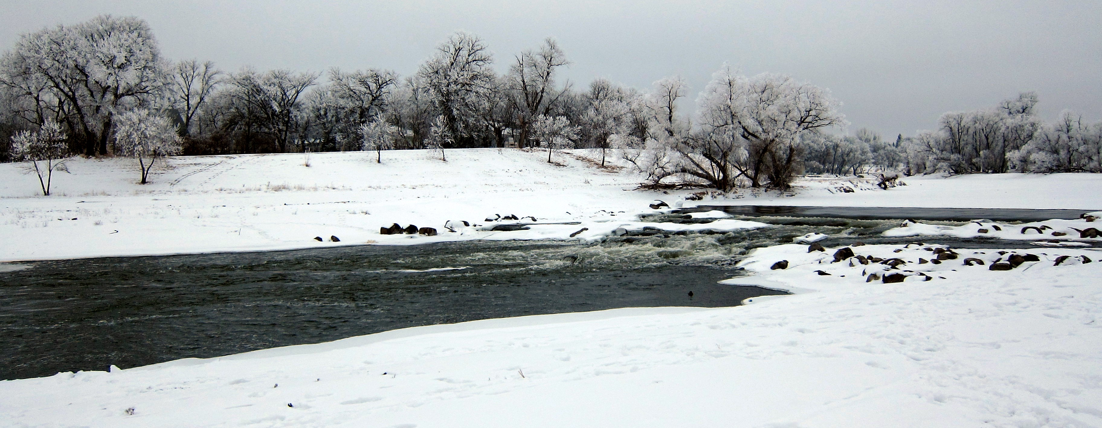 The Red River of the North, looking at the Moorhead, MN bank from the Fargo, ND bank, near the Main Ave. dam.